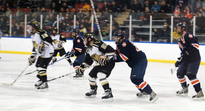 Lindenwood Univ. vs Univ. of Illinois Ice Hockey